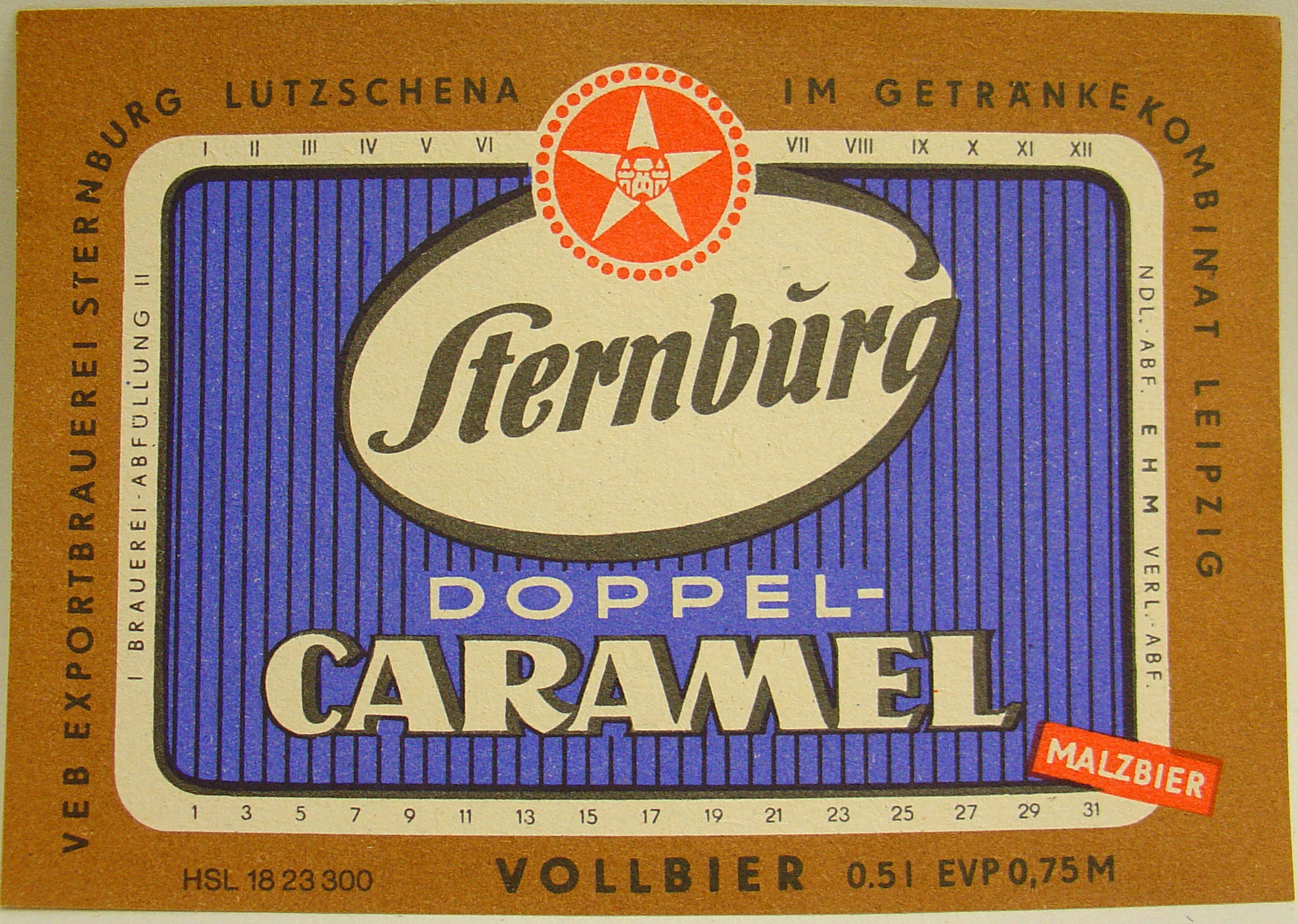 Flaschenetikett der Sternburger Brauerei, Doppel-Caramel